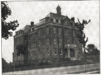 First hospital building uilt by St Mary's, Passaic